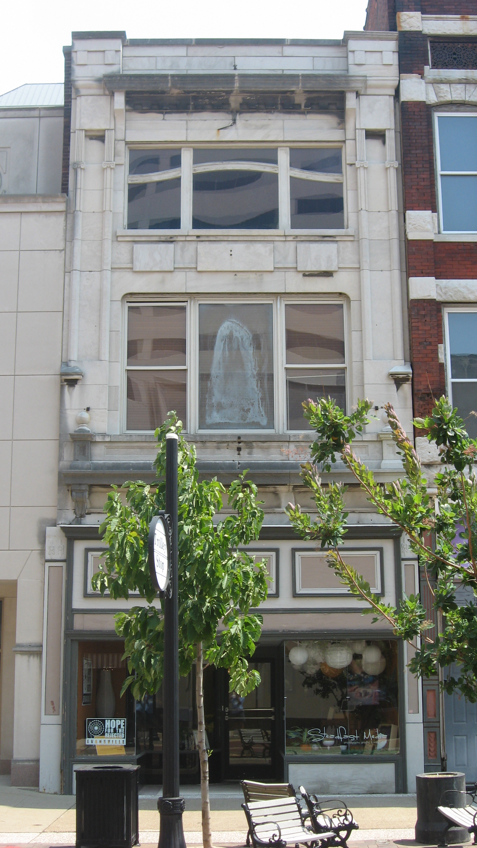 Front of the Building at 223 Main Street in Evansville, Indiana, United States. Built in 1910, it is listed on the National Register of Historic Places.